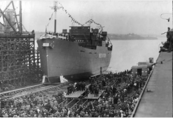 Originally taken in Pictou, Nova Scotia Canada in 1944 of the launching of the ship S.S. Ashby Park